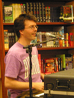 Andrew Creeggan, formerly of Canadian rock band Barenaked Ladies, performing with The Brothers Creeggan in London, Ontario.